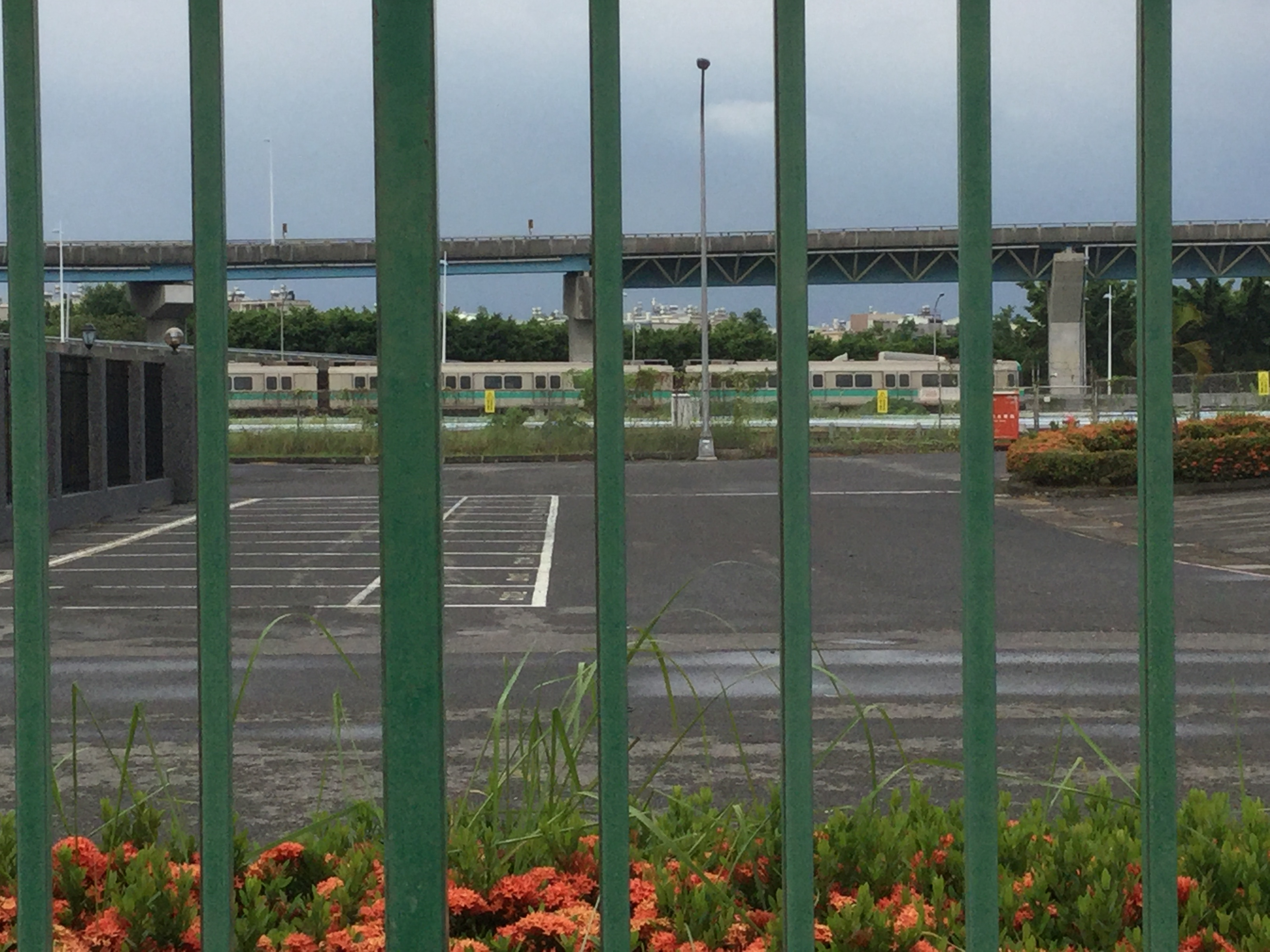 Kaohsiung MRT South Depot